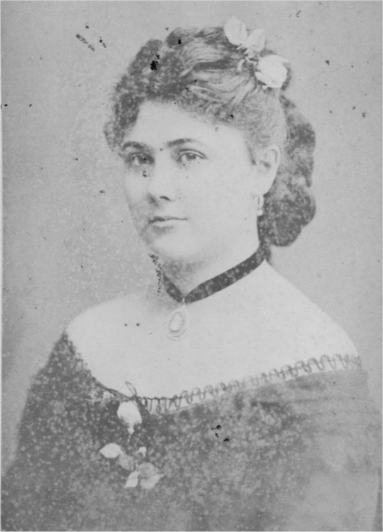 Minnie Hauk, american opera singer